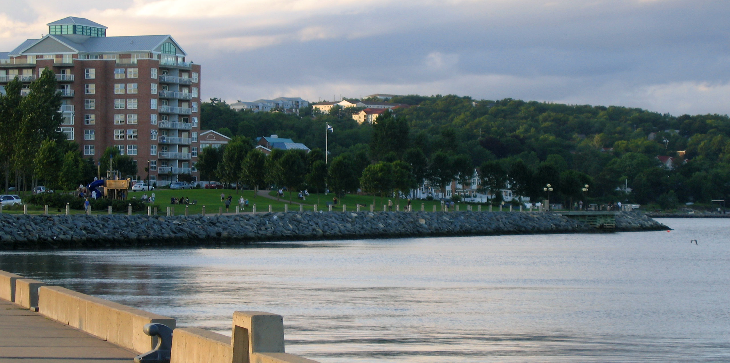 Waterfront in Bedford, Nova Scotia at the tip of the Bedford Basin